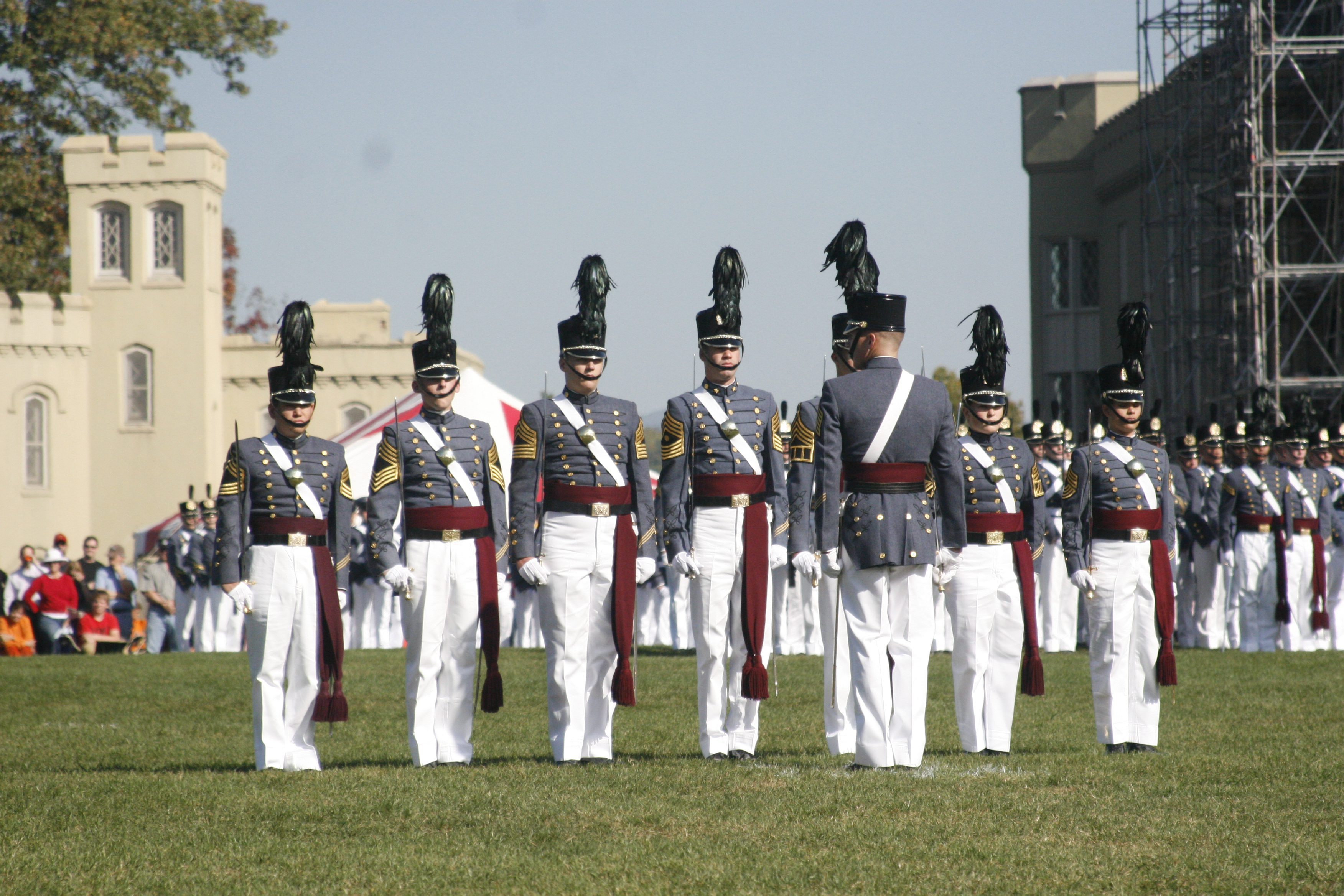 The Cadet Regimental Commander gives commands to the Corps of Cadets during parade at the Virginia Military Institute.